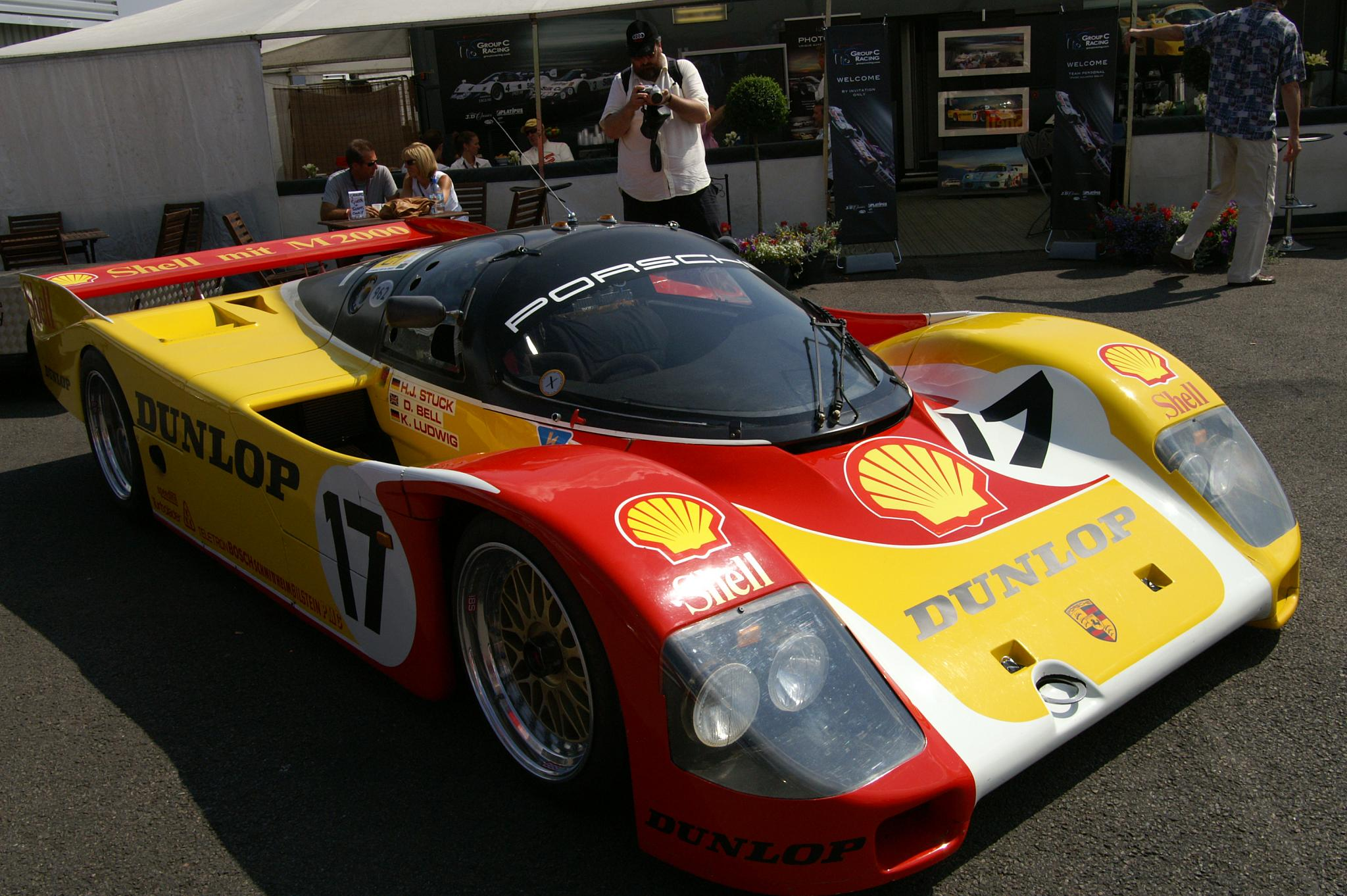 Porsche 962C - 1988 24 Hours of Le Mans - Driven by Hans Joachim Stuck, Klaus Ludwig and Derek Bell - Silverstone Classic July 2008